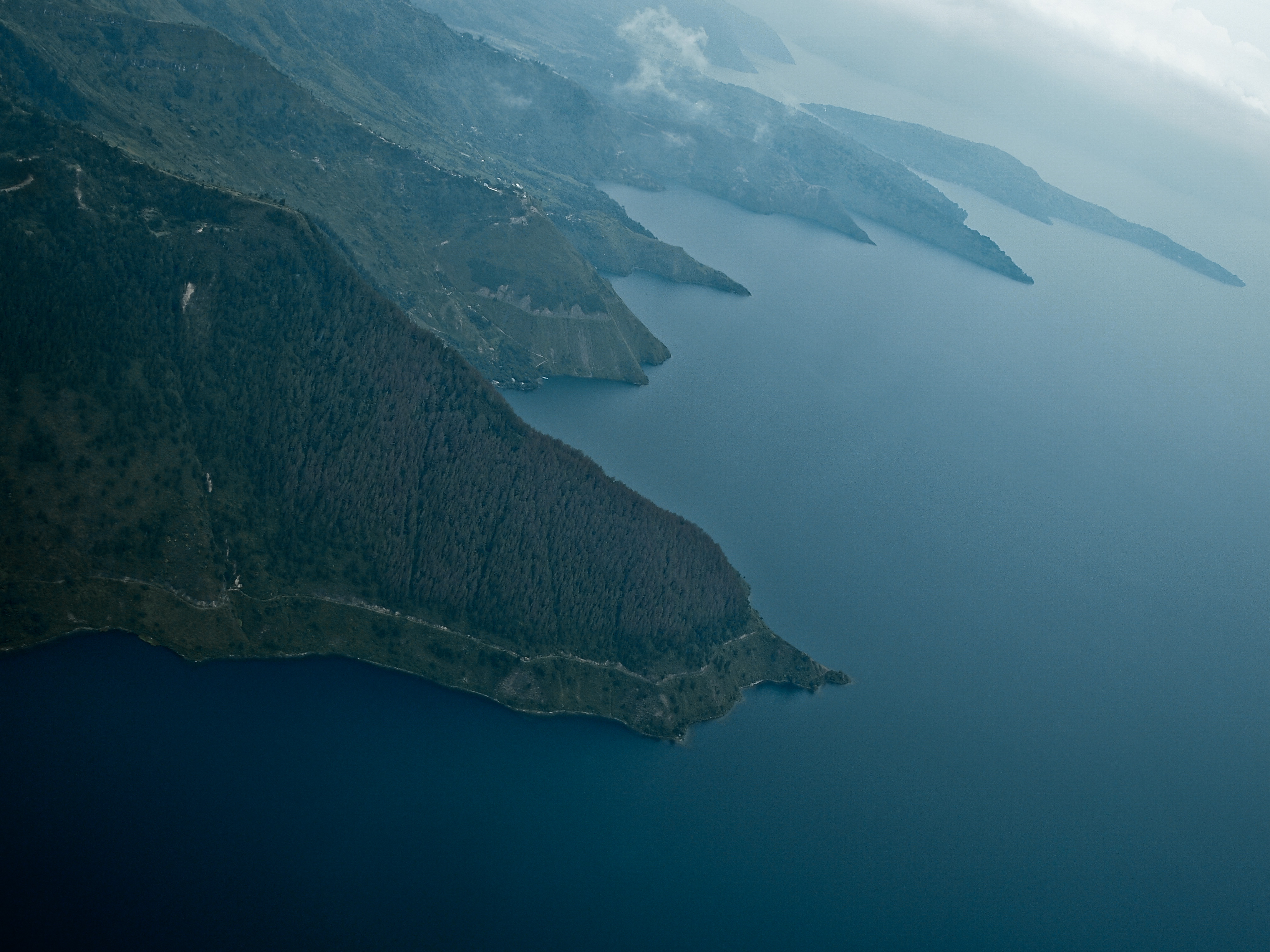 Approach to Silangit Airport, southern shore of Danau Toba (Lake Toba), with Pulau Sibandang (Sibandang Island) visible in the background.